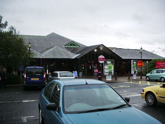 Killington Lake Motorway Services